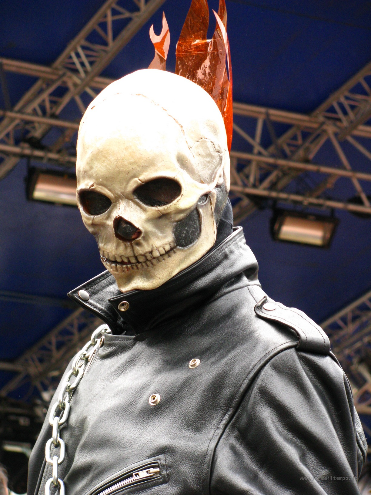 Costume of the fictional character Ghost Rider. cosplay